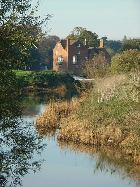 River Avon, looking upstream towards Fladbury.